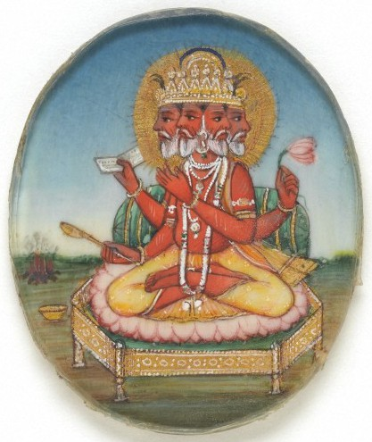 L0043627 Credit: Wellcome Library, London A roundel of Brahma, the creator of the universe. 19th century Published: [India], 19th century Size: image 5.1 x 4.3 cm. Collection: Iconographic Collections Library reference no.: Iconographic Collection 582102i Full Bibliographic Record Link to Wellcome Library Catalogue Copyrighted work available under Creative Commons by-nc 2.0 UK: England & Wales